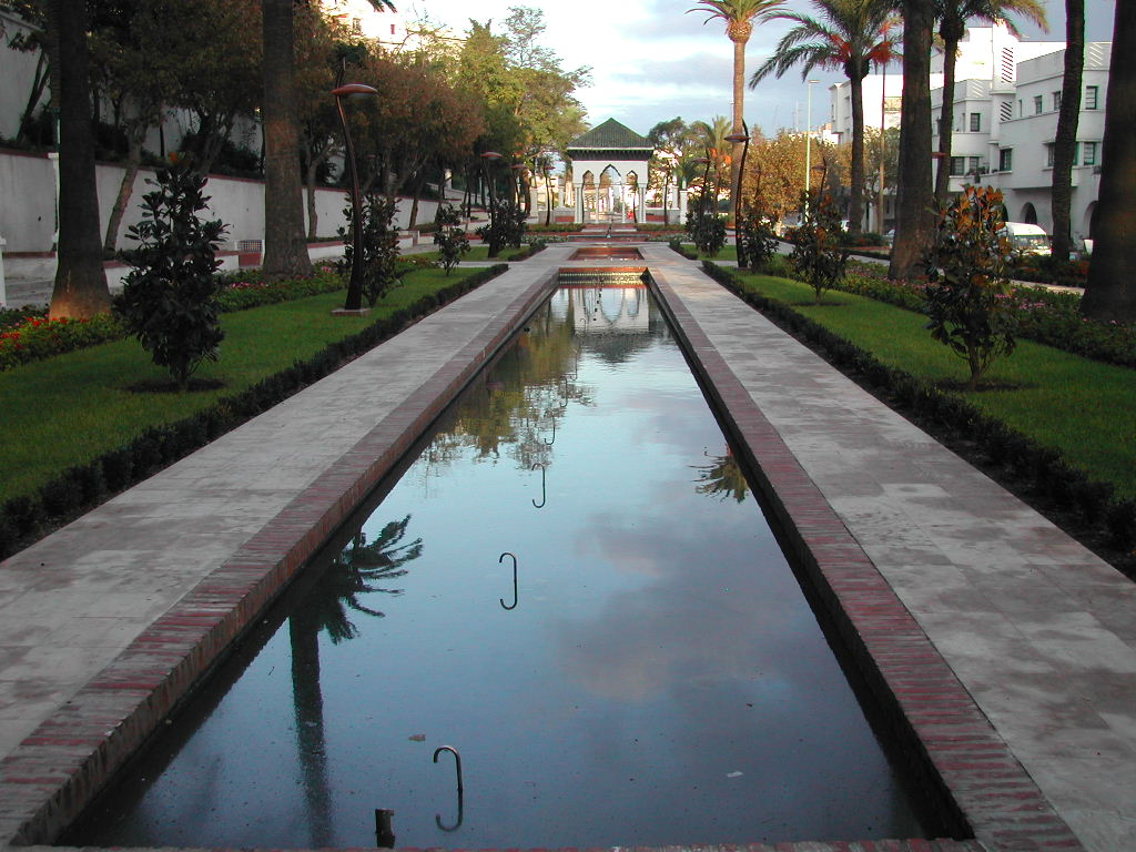 Riad al Ochak, Tetouan, Morocco